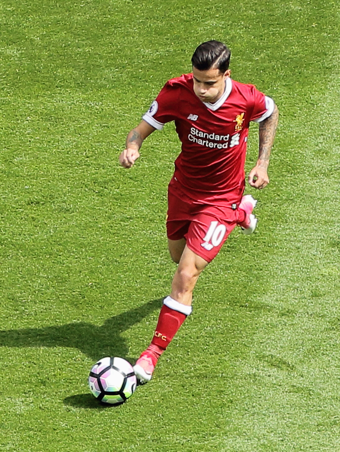 Coutinho